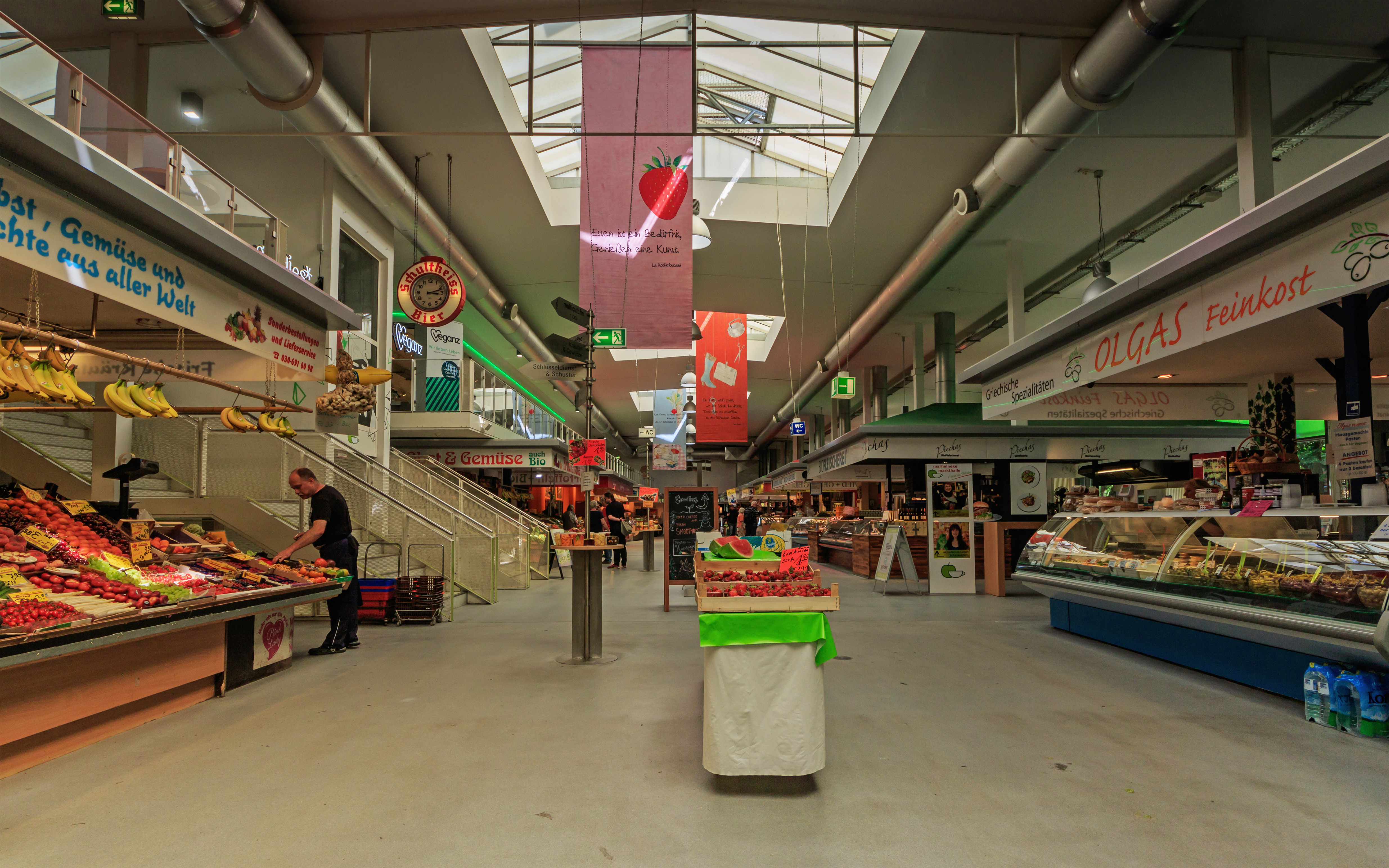 Indoor market in Berlin-Kreuzberg (Germany)